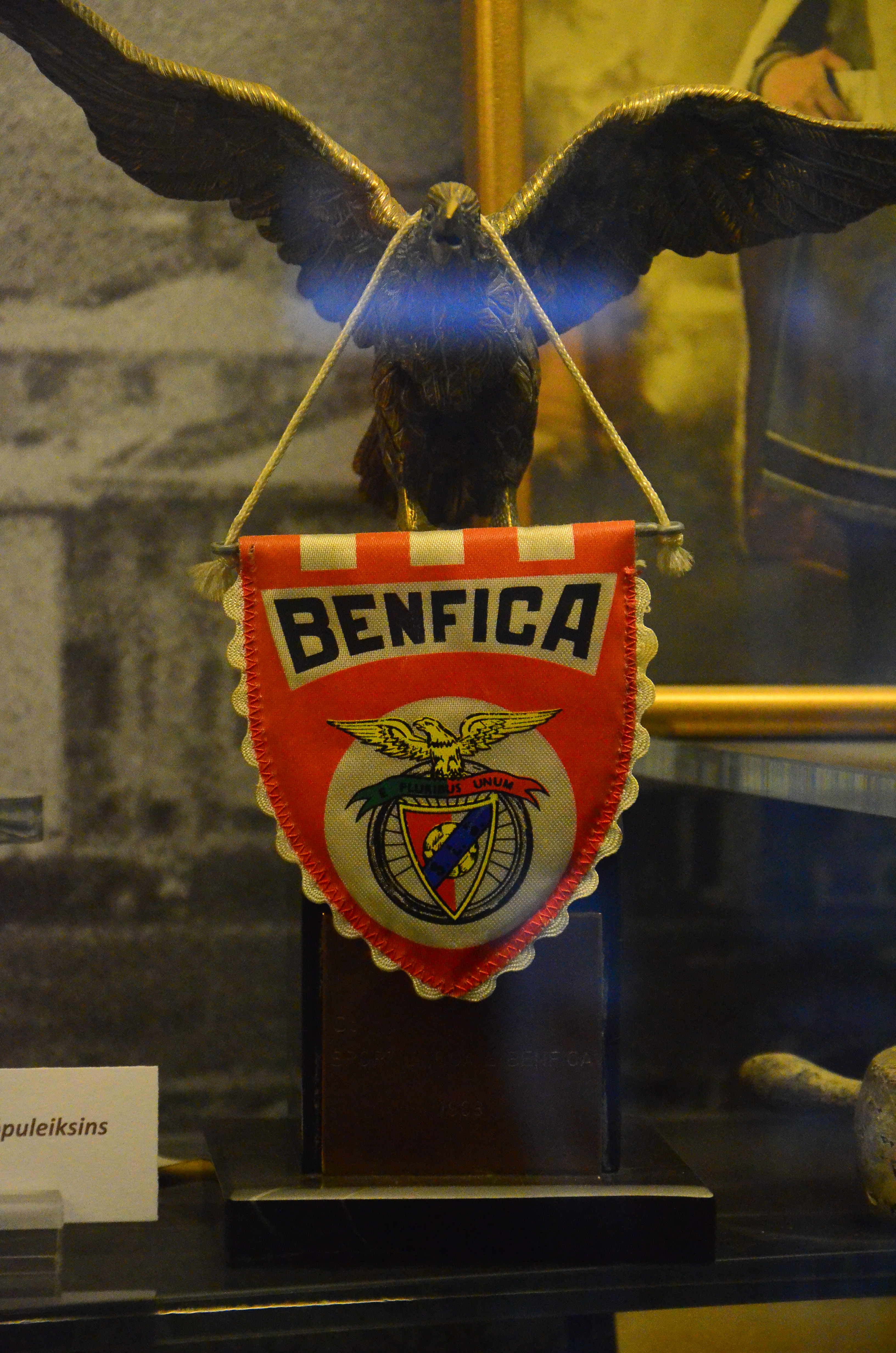 Benfica pendant in the Valur display cabinet